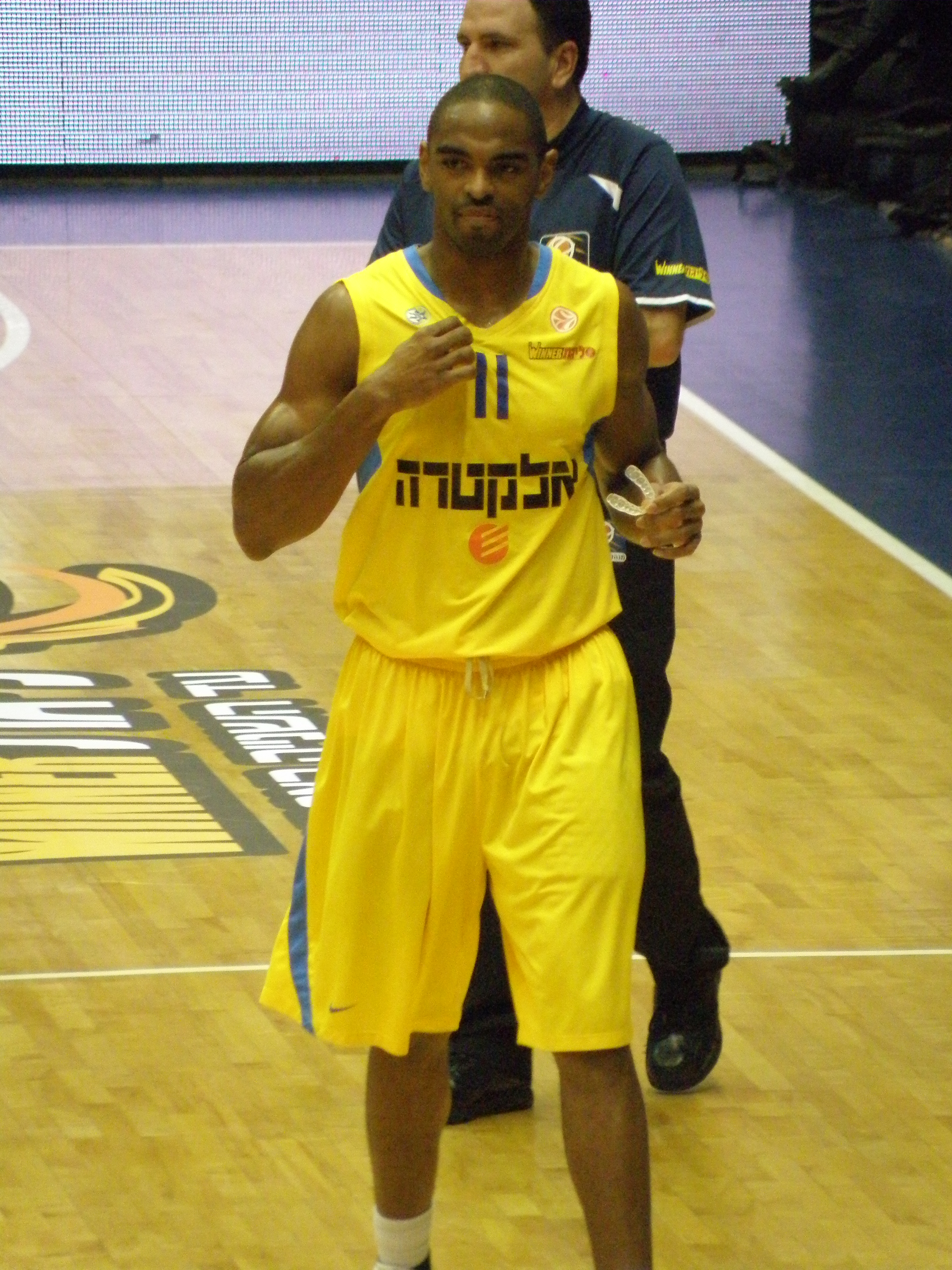 American basketball player playing for Maccabi Tel Aviv (2010)